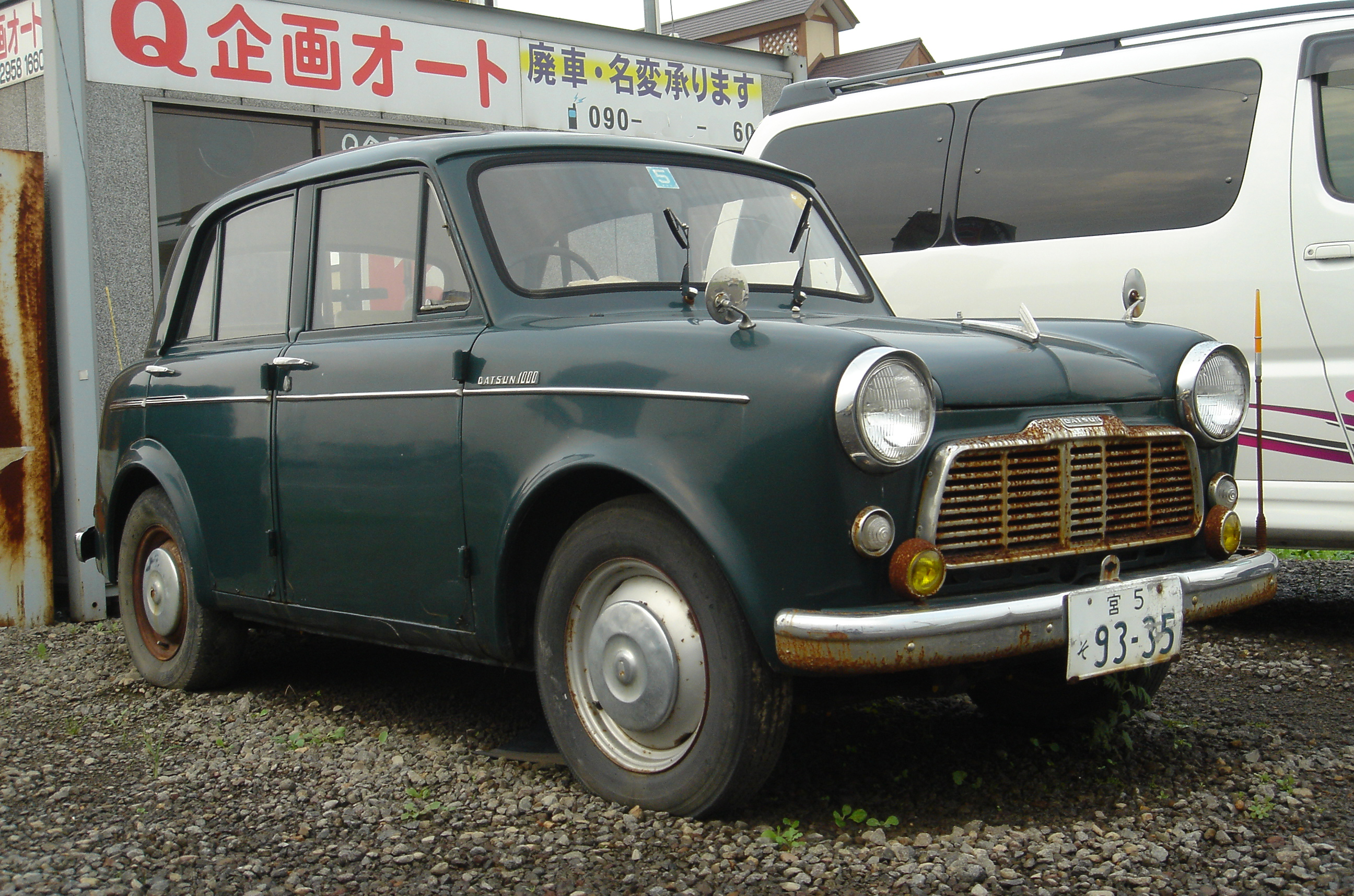 1959 Datsun 1000 (211) on a used car lot in Japan